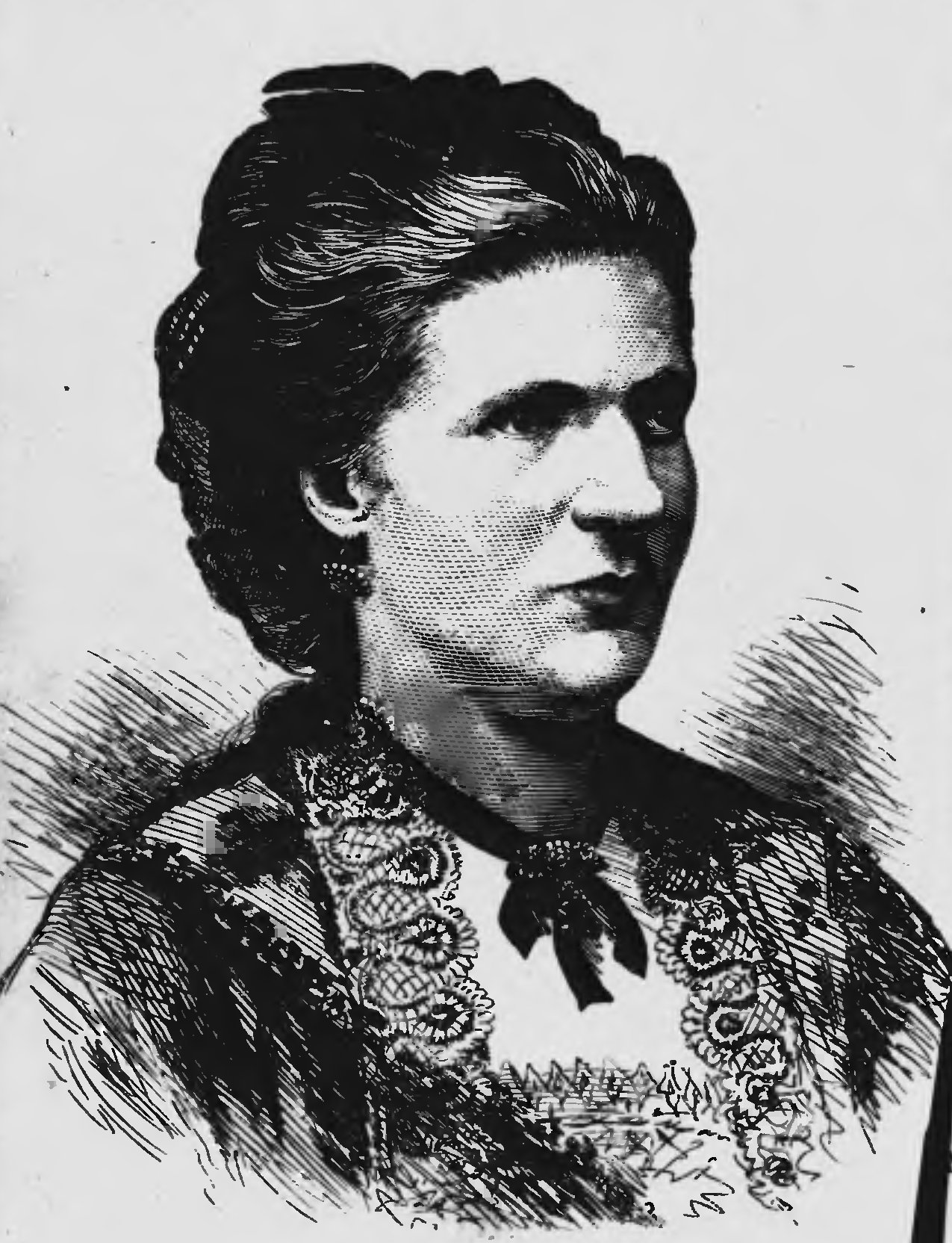 Czech writer Františka Stránecká (1839–1888)